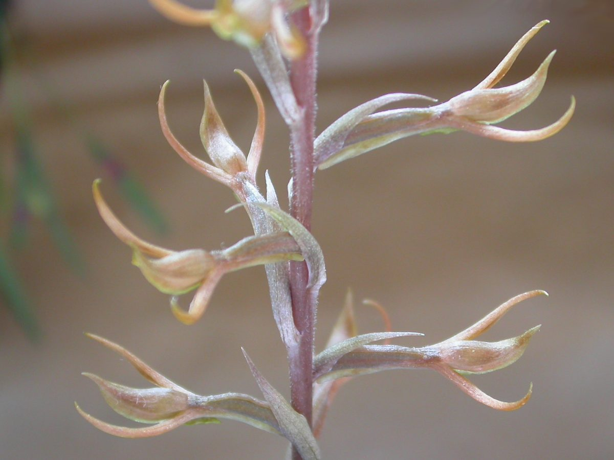 Platythelys paranaensis